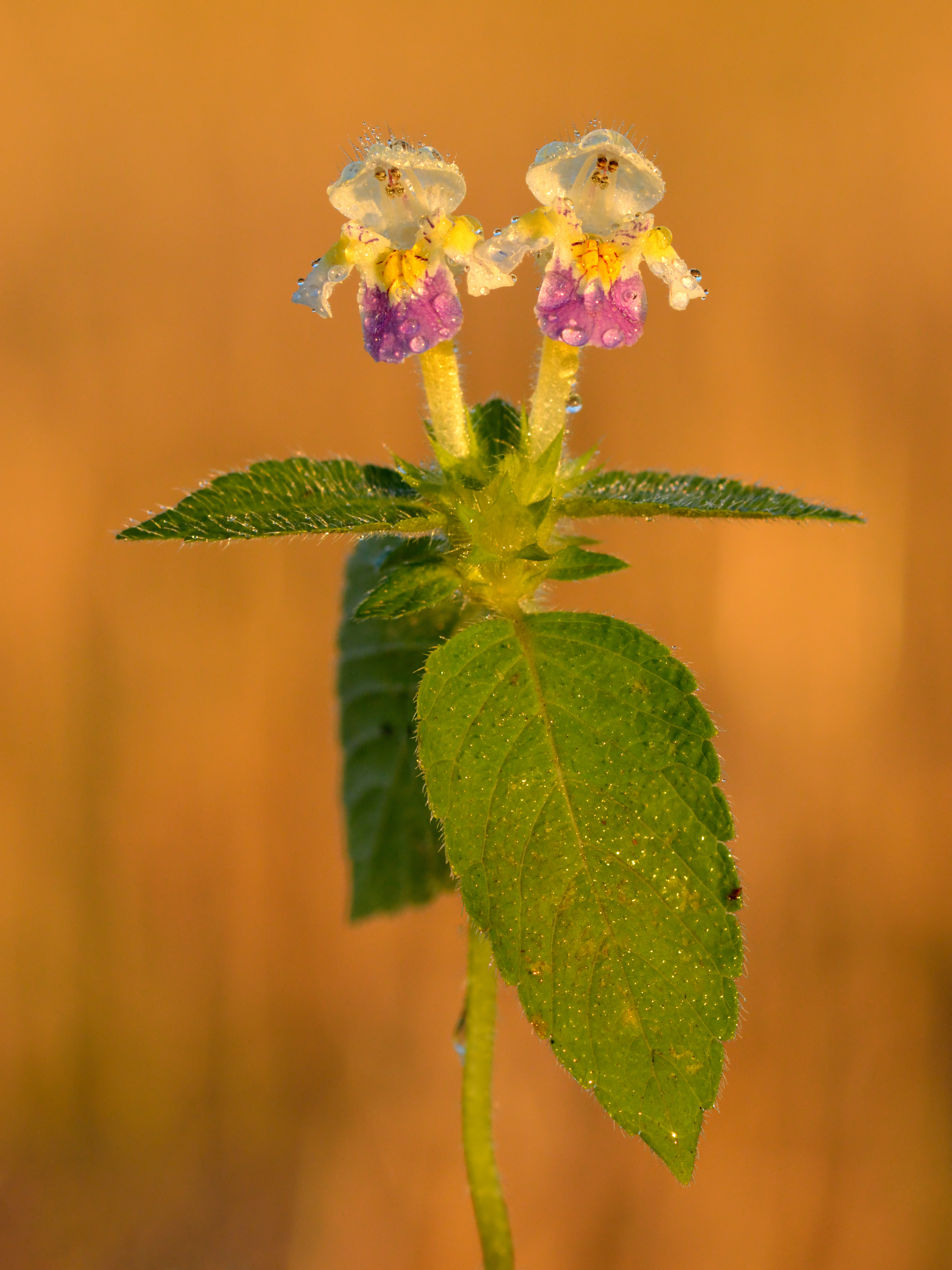 Large-flowered hemp-nettle (Galeopsis speciosa) at sunset. Keila, Northwestern Estonia.